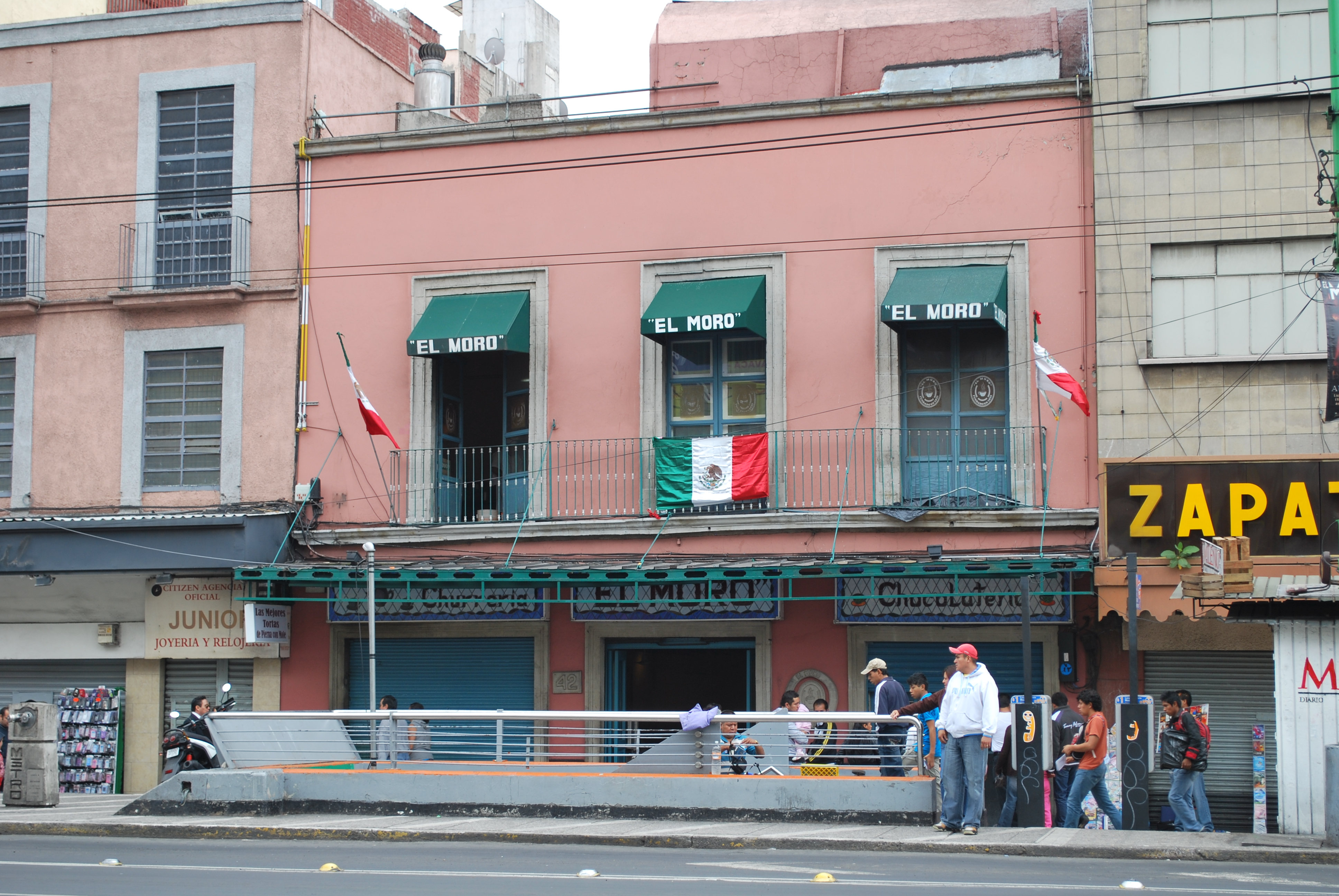 Facade of the El Moro cafe in the historic center of Mexico City